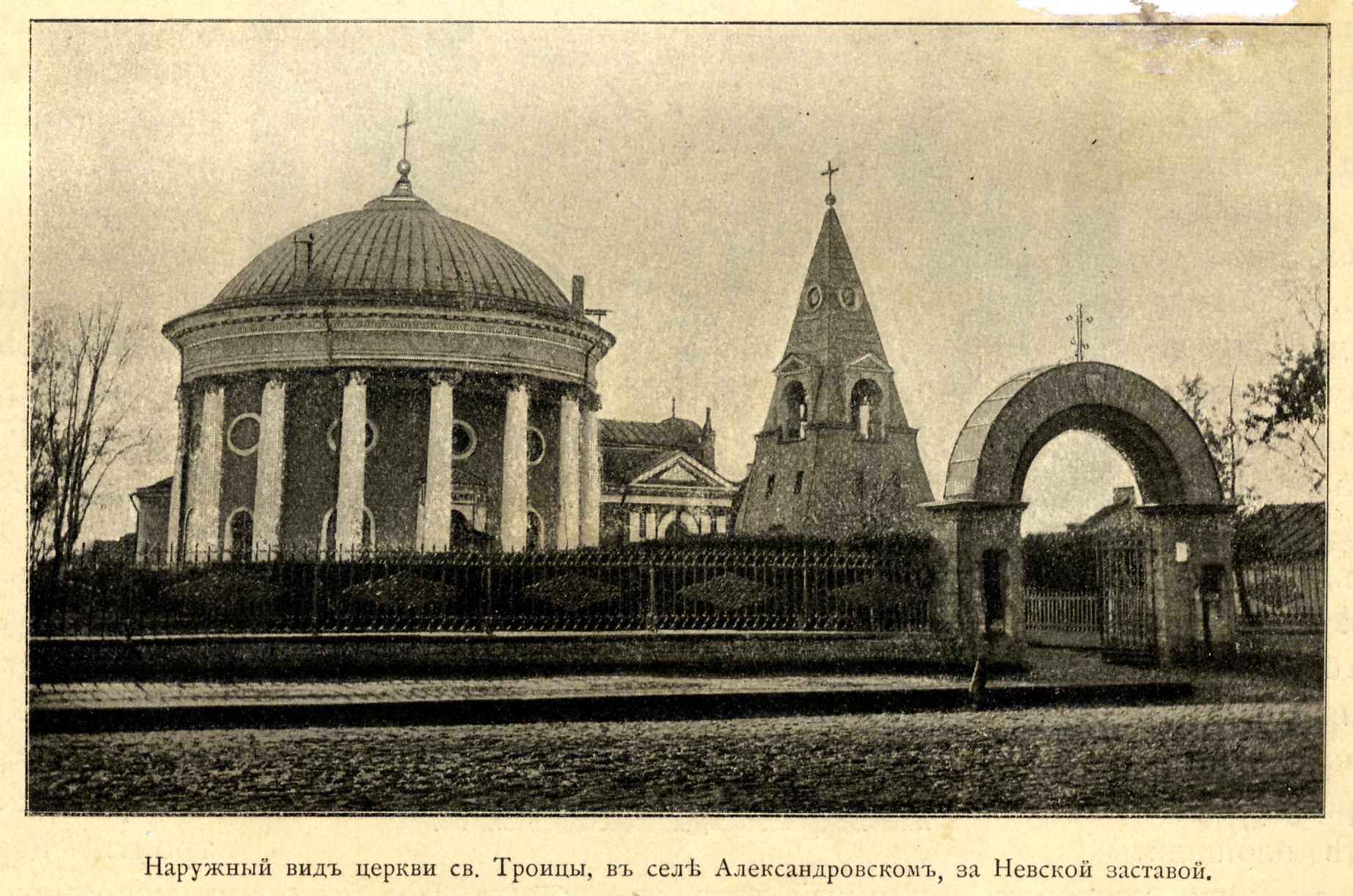 Saint Petersburg (Russia), Troitskaya church